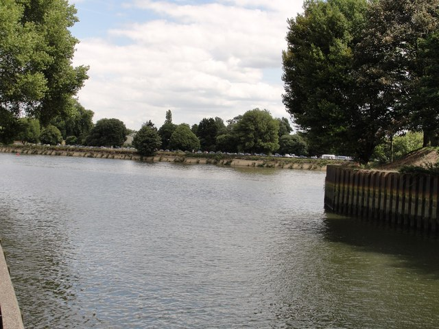 Confluence of Rivers Thames and Brent at Brentford The photograph was taken from the redeveloped docklands at Brentford. In the foreground is the River Brent, and in the background is the River Thames with carpark at Kew gardens.